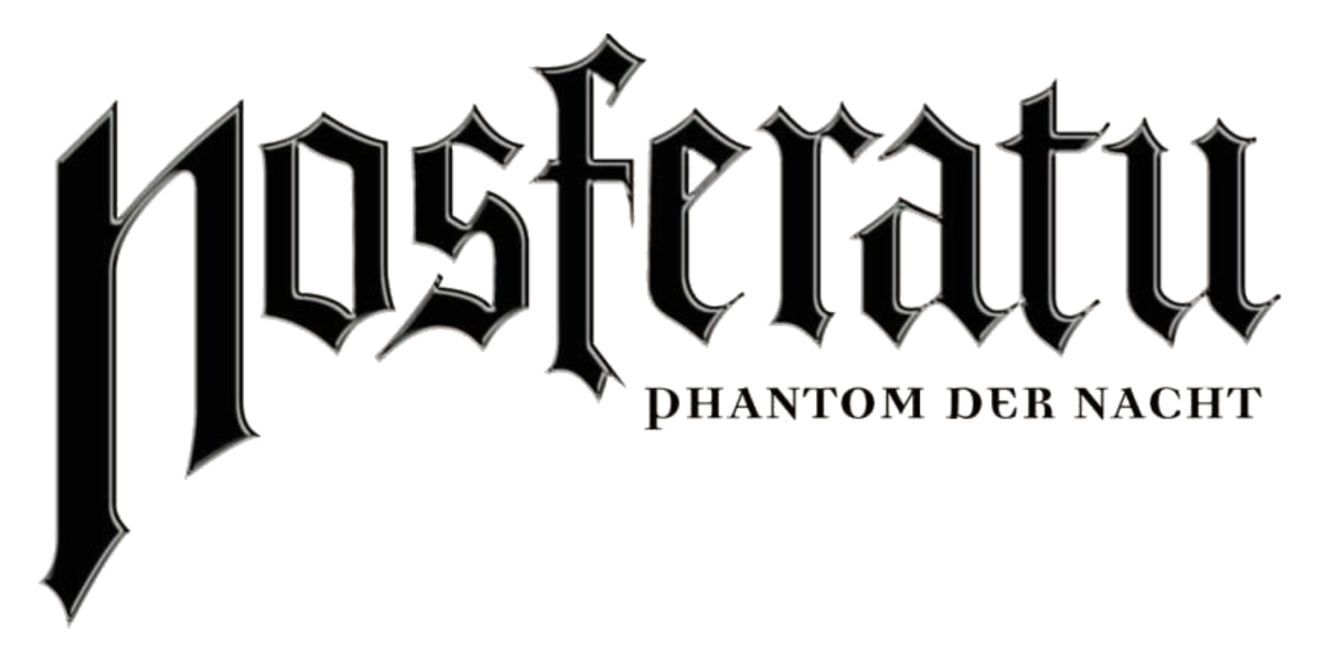 "Nosferatu: Phantom der Nacht" movie horizontal logo (black letters).